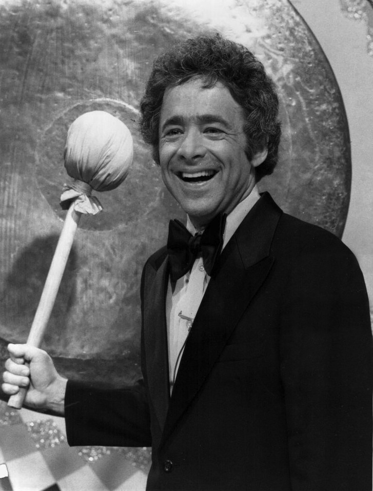 Publicity photo of American television host, Chuck Barris promoting the June 14, 1976 premiere of the NBC reality talent show The Gong Show.